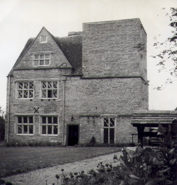 King John's Castle, The Mythe King John's Castle is thought to be the wing of a once larger manor house dating from the 15-17th century, it is doubtful there is any connection with King John and the house is more likely to be associated with Tewkesbury Abbey. The house was my grandparent's home for five years in the 1950s which is when this picture was taken.